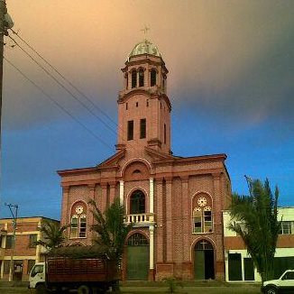 Fotografía de la Parroquia San José de Ulloa